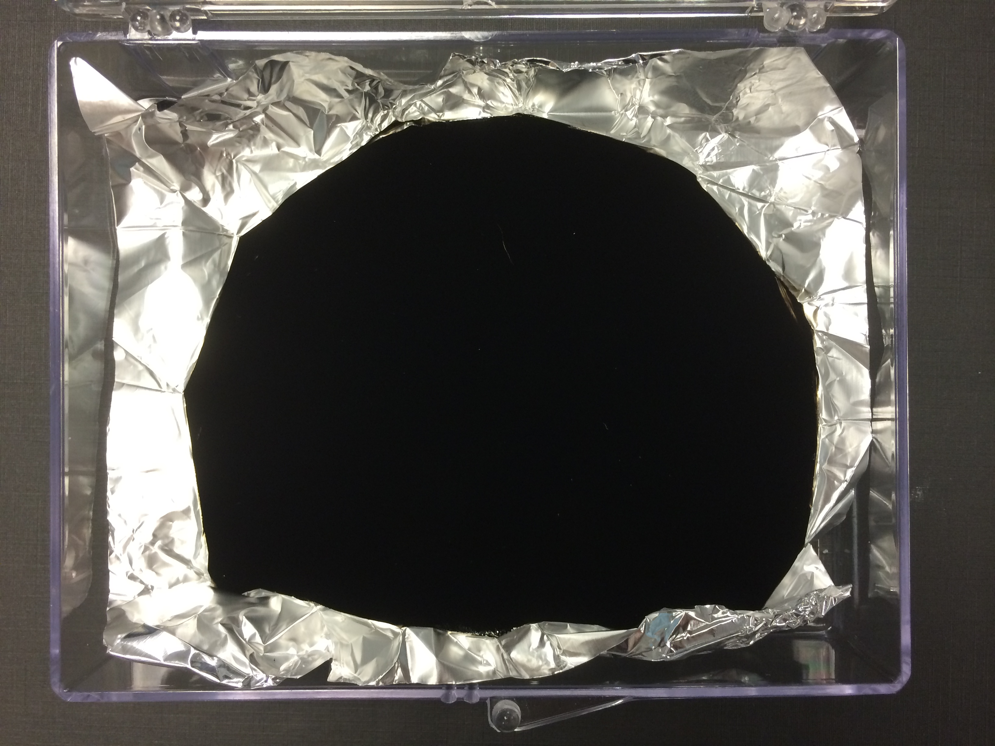 Vantablack grown on tinfoil